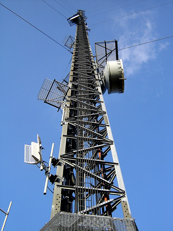 Baden Tower..... Ontario, Canada. Transmitting CKCO's channel 13